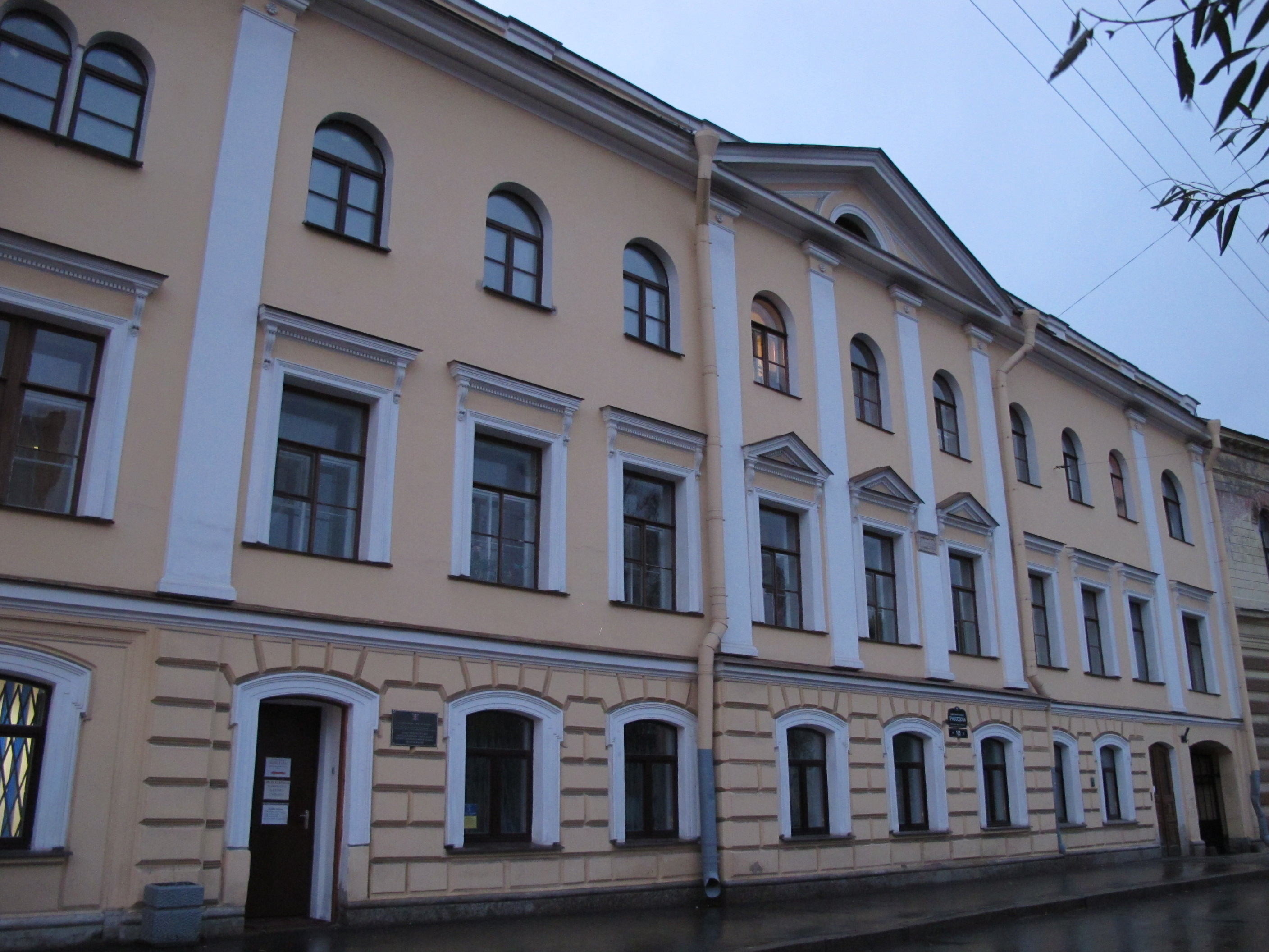 Griboedov Canal Embankment, No. 105 (Russian writer Konstantin Vaginov lived here from 1920 to 1934)